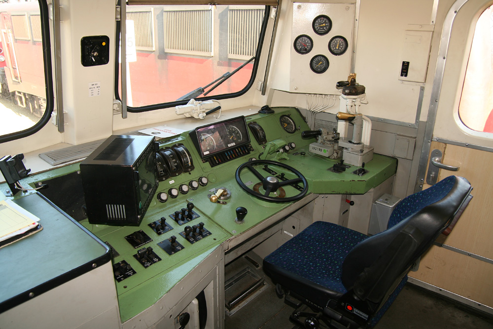 The driver's cab on a DB class 151 locomotive.